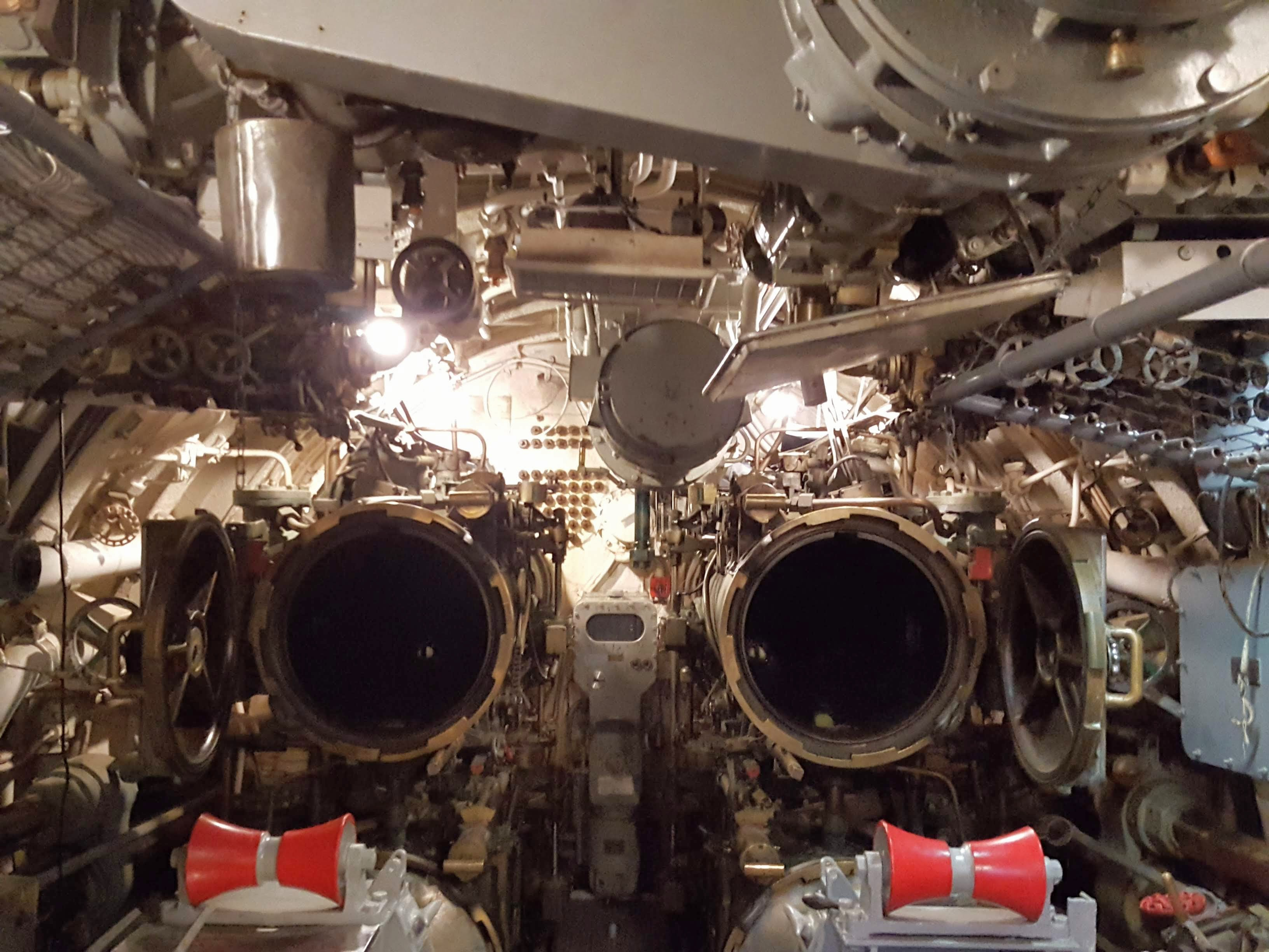 A photo of the torpedo room of the USS Batfish (SS-310) submarine